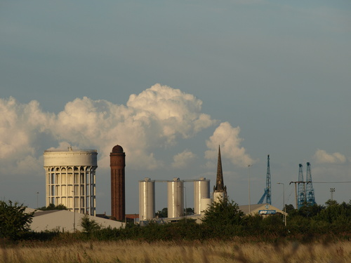 Skyline of Goole, East Riding of Yorkshire, England.